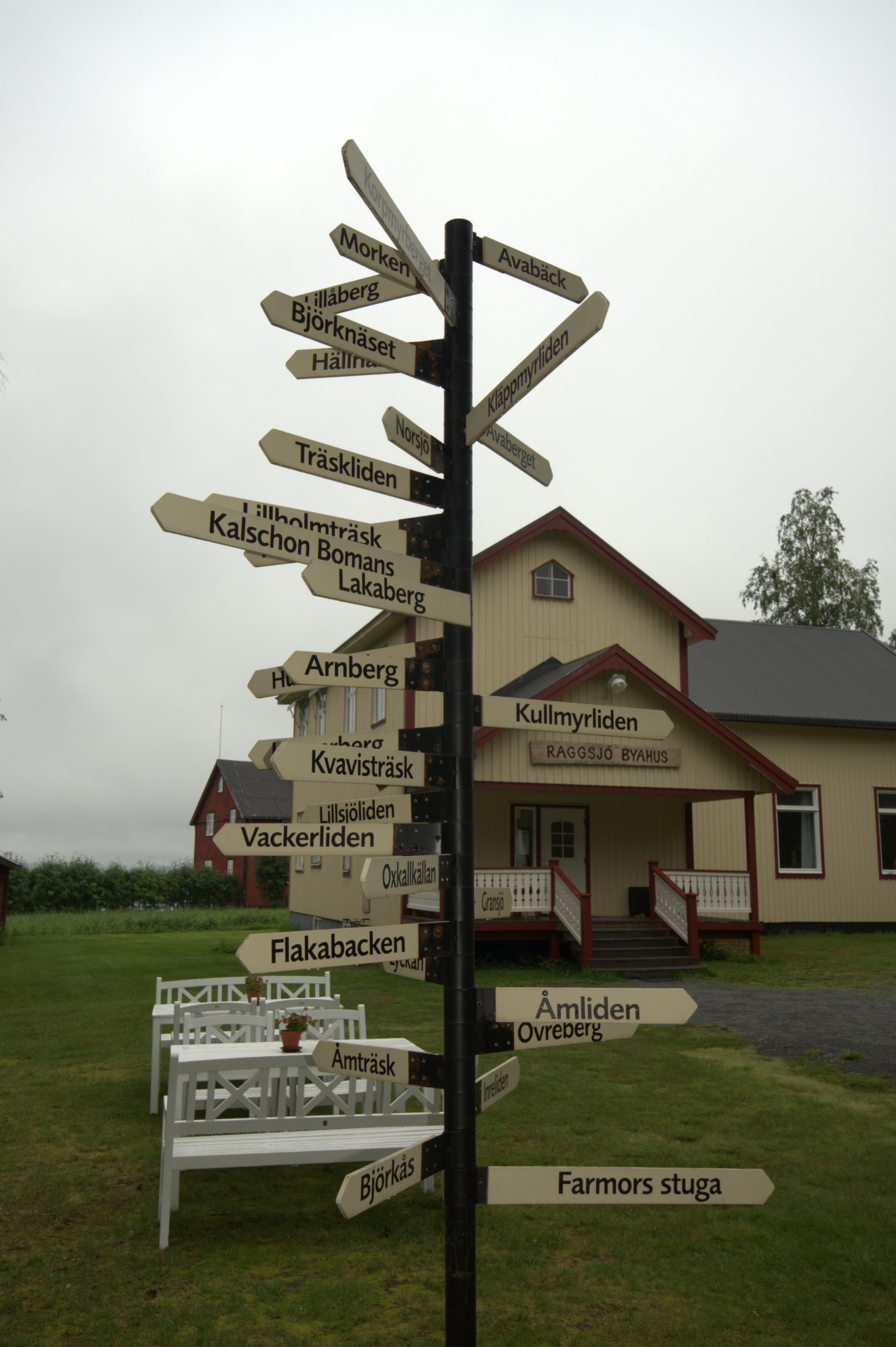 Utanför Raggsjö Byahus. Skyltarna pekar mot verkliga och fiktiva platser i Torgny Lindgrens författarskap.